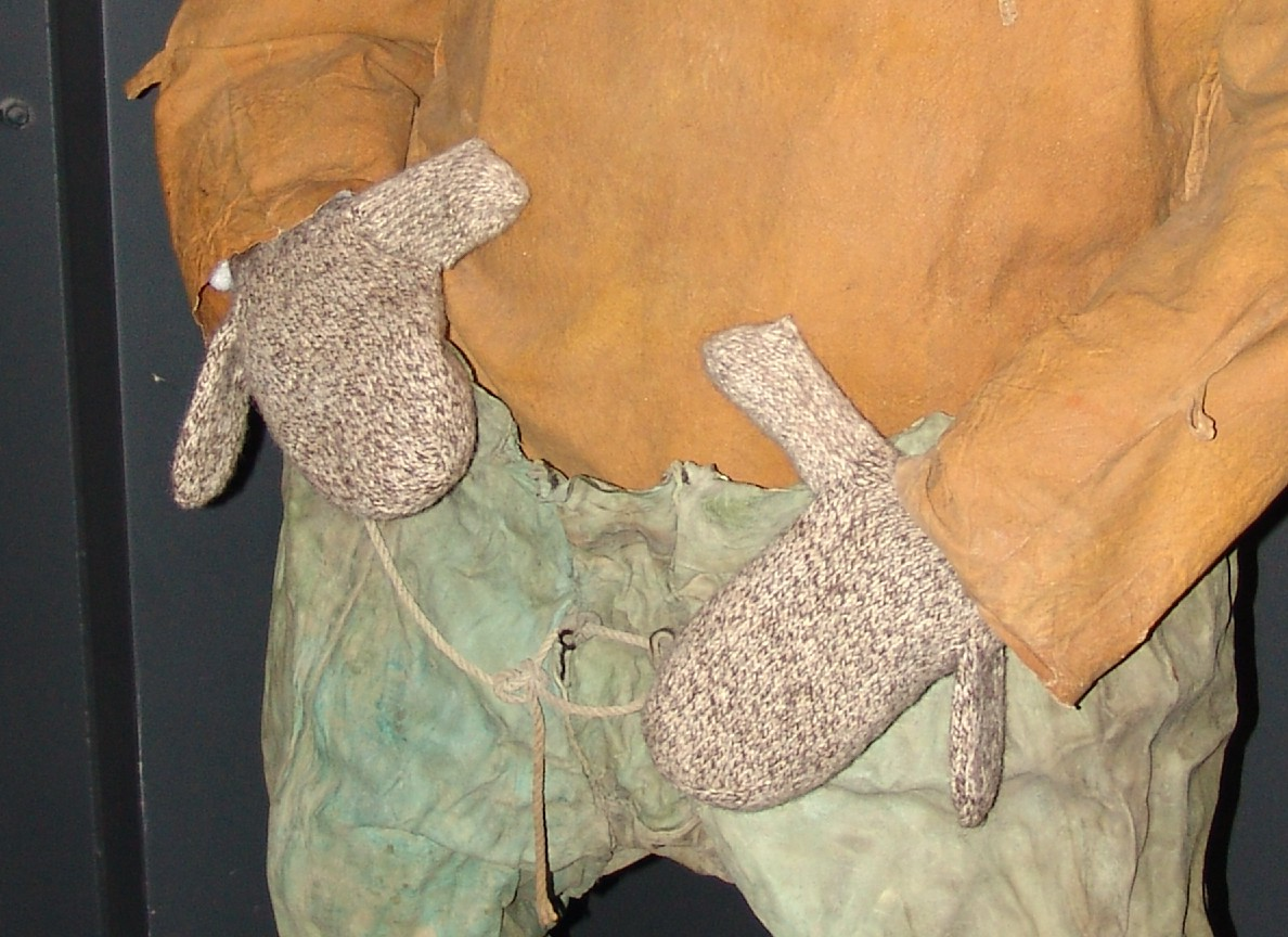 kayak mittens